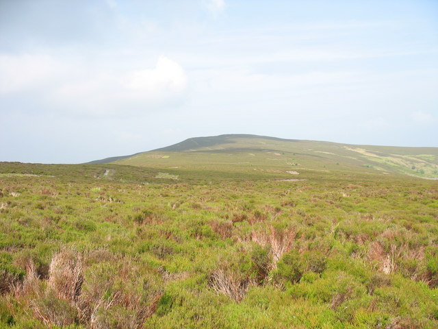 View across the upland heath towards Moel Fferna, 4 km from Plas Nantyr, Wrexham/Wrecsam, Wales.